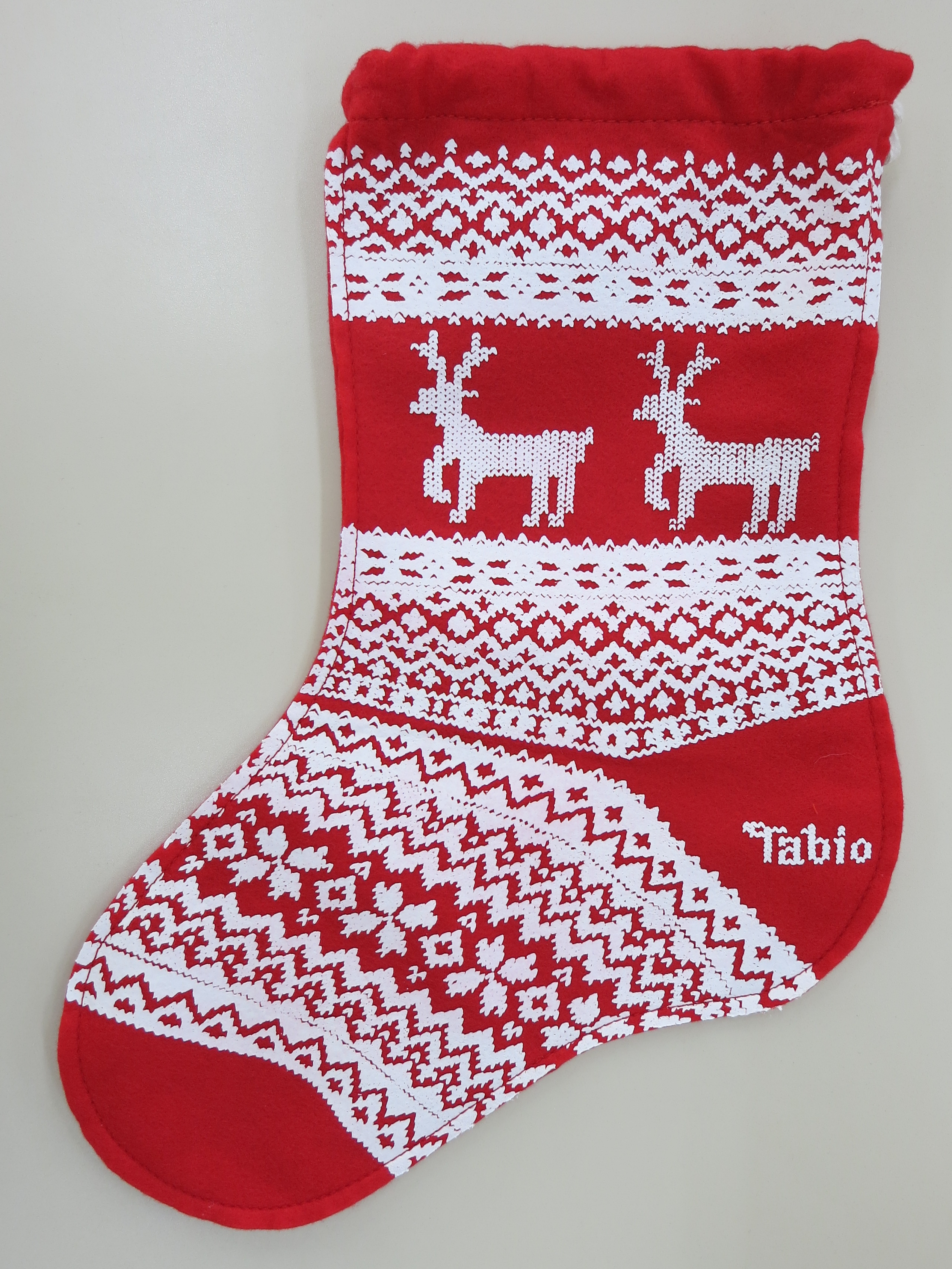 A red and white Christmas stocking.